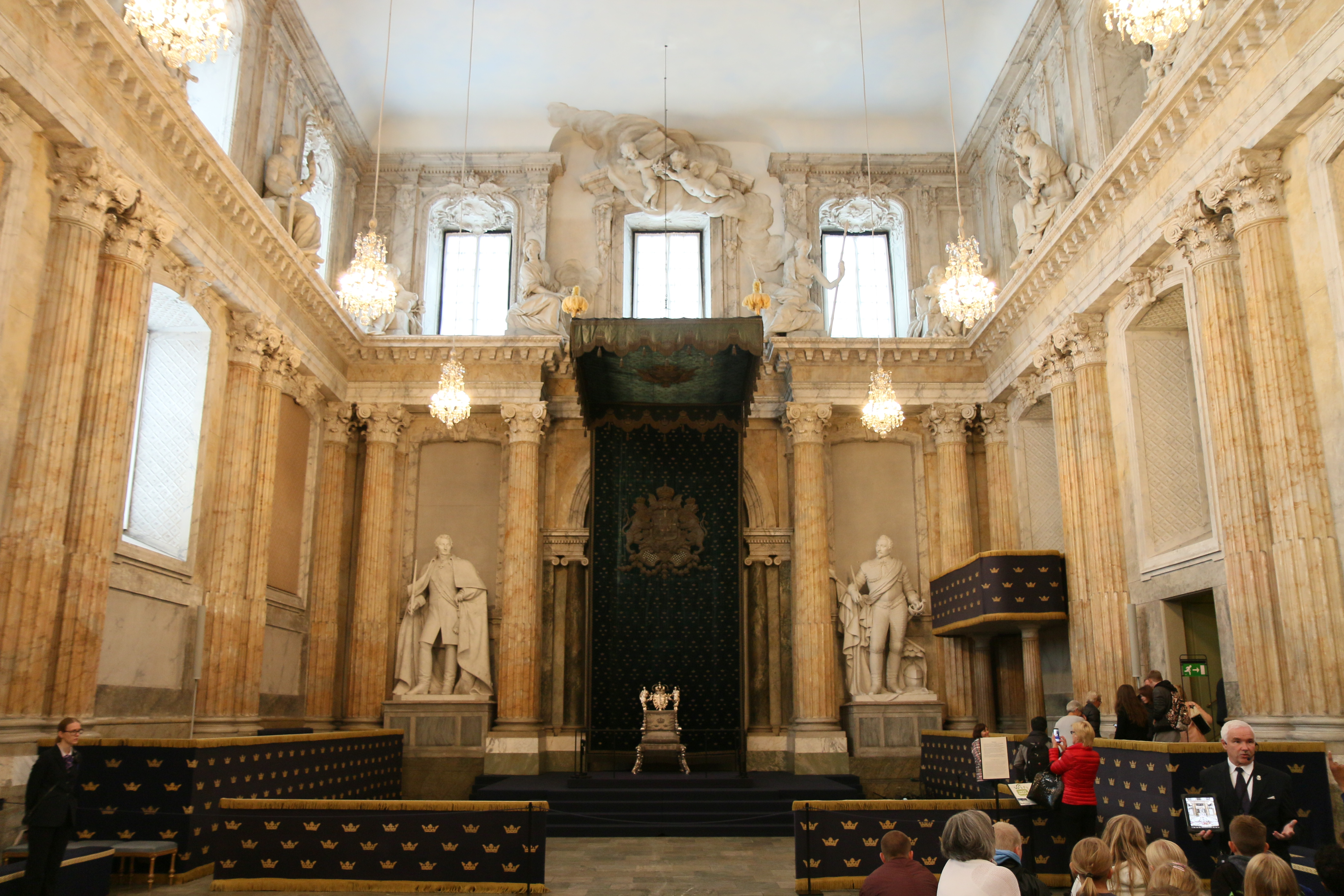 The Hall of State Throne room - "Hall of State" - Rikssalen in 2015 The Hall of State is in the west half of the southern row of the palace and is two stories high (first and second floor). It was introduced for the Riksdag of 1755. The hall was designed by Hårleman who modified Tessin's plans. The Silver Throne of Queen Christina is placed in the Hall. The main entrance of the Hall is in the South Portal (or Arch).